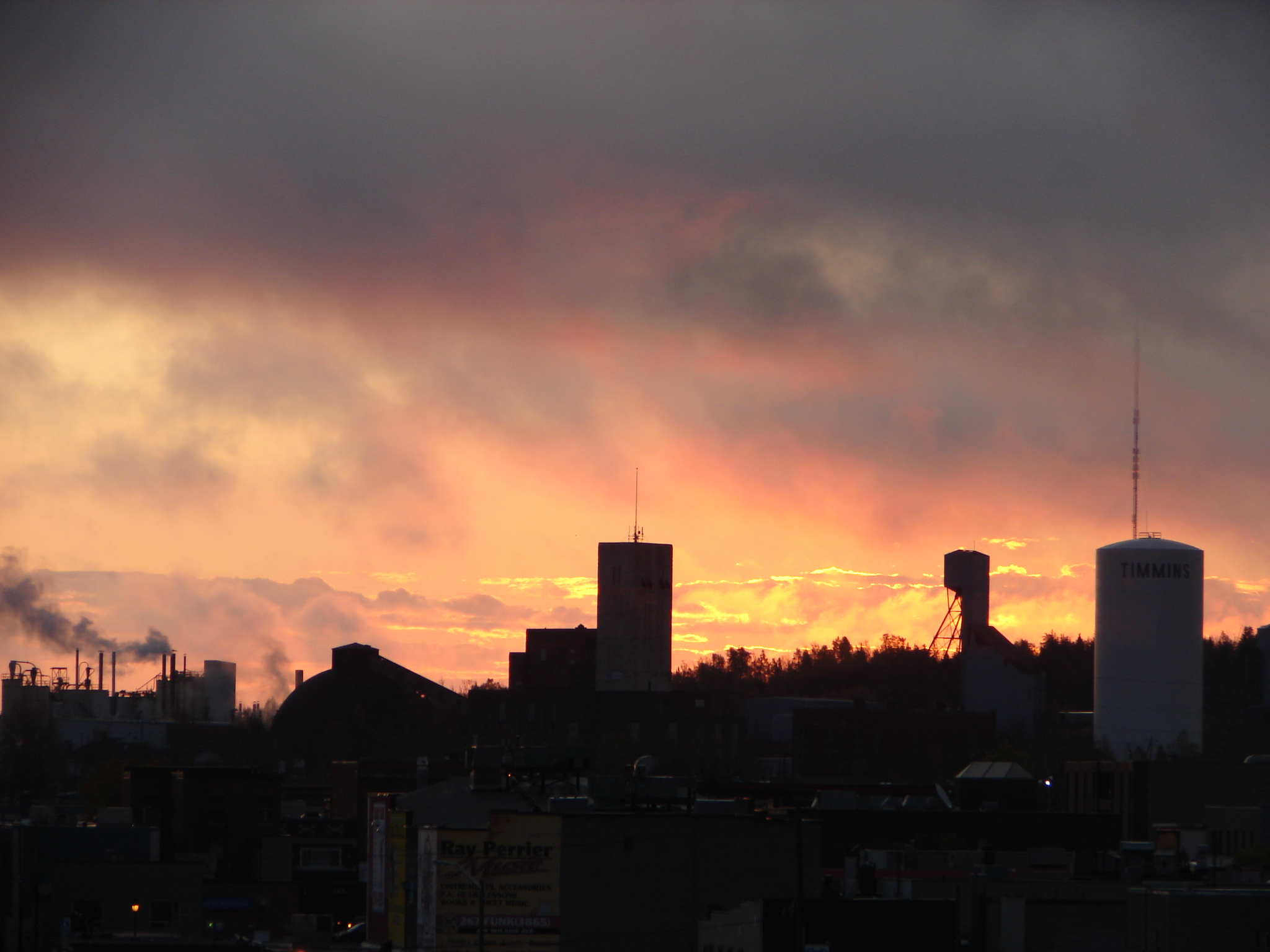 Sunrise over downtown Timmins, Ontario, Canada